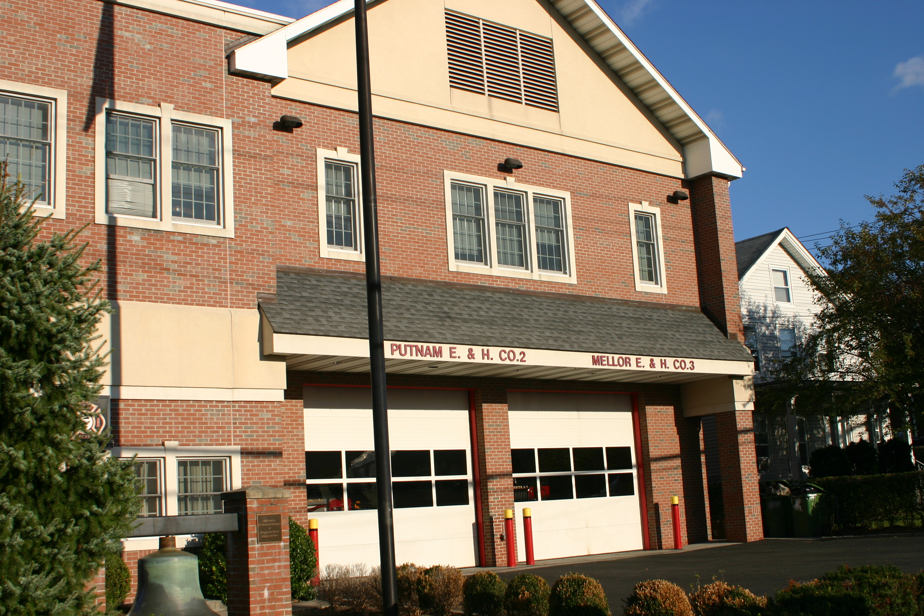 Putnam and Mellor Engine and Hose Company Firehouse, 51-53 Grace Church Street, Port Chester which replaced the demolished 1888 firehouse (NRHP) at 46 S. Main St. Port Chester